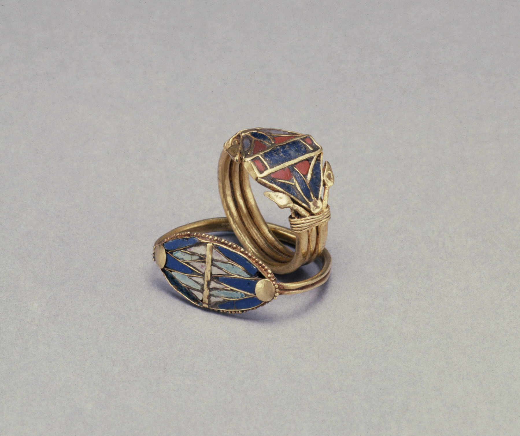 One ring of this pair has a slender hoop attached to a lentoid bezel on which opposing lotus blossoms with petals of alternating dark and light blue glass are cut and set into gold cloisons. The cloisons between the petals are filled with white glass with purple specks. Lotus blossoms were a popular motif and symbolized regeneration. The other is a triple ring attached to the back plate of the bezel. A cluster of five wires bent over the outside of the hoop from which golden petals spring to frame the two lotus blossoms of the bezel. The blossoms are made from lapis lazuli and carnelian set into gold cloisons.